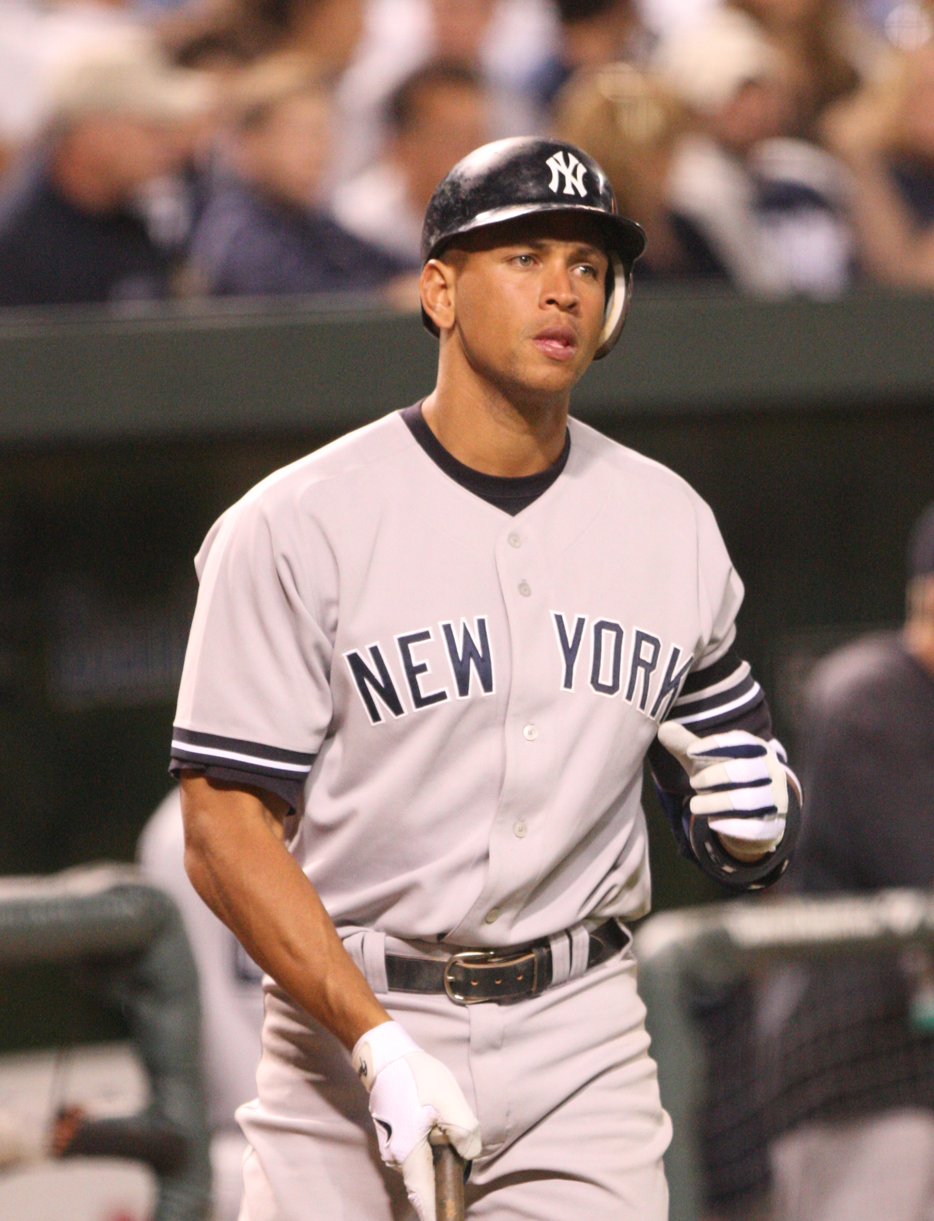 Alex Rodriguez prepares to bat in a game on September 29, 2007.